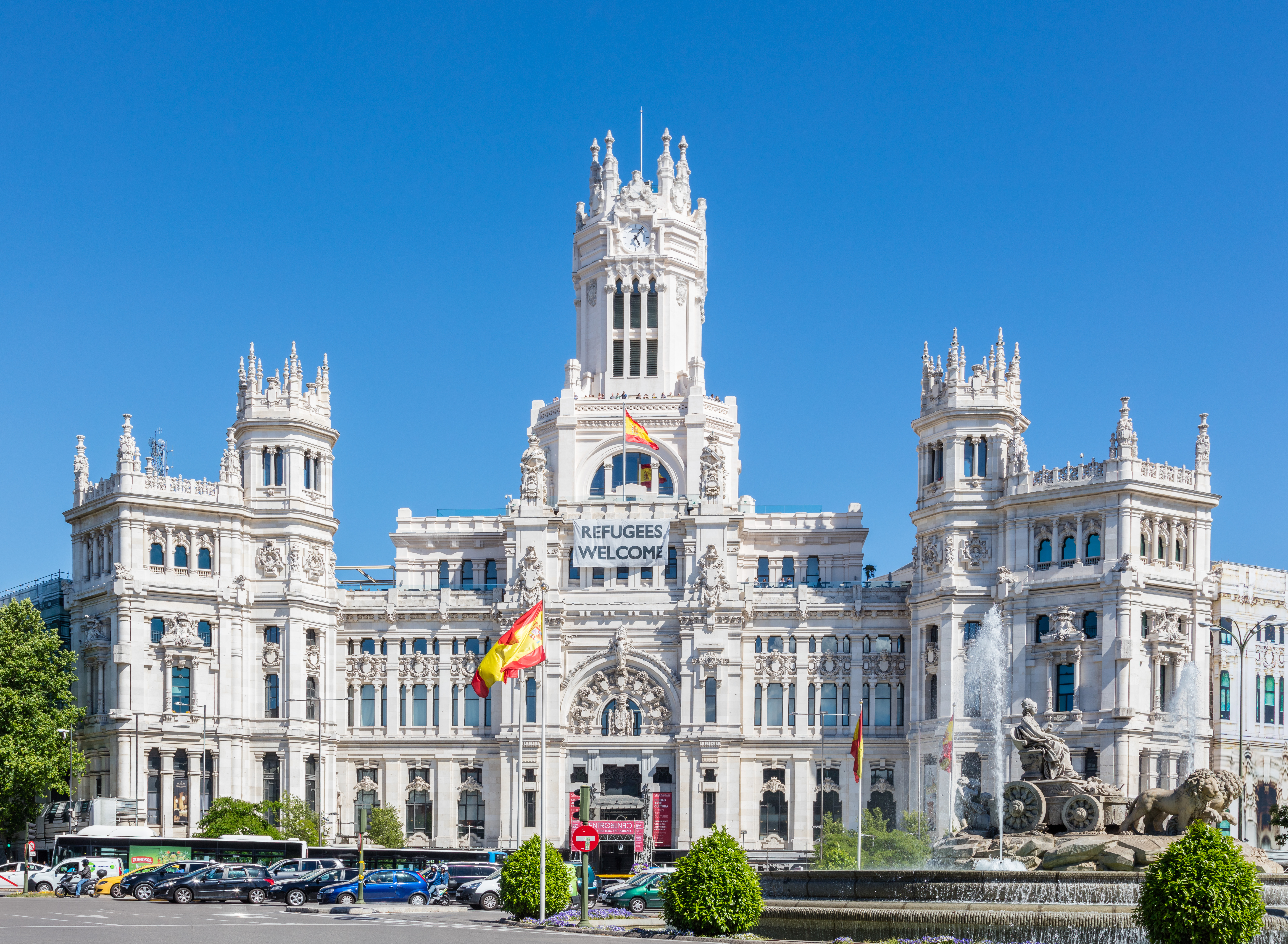 Communications Palace, Cybele Square, Madrid, Spain